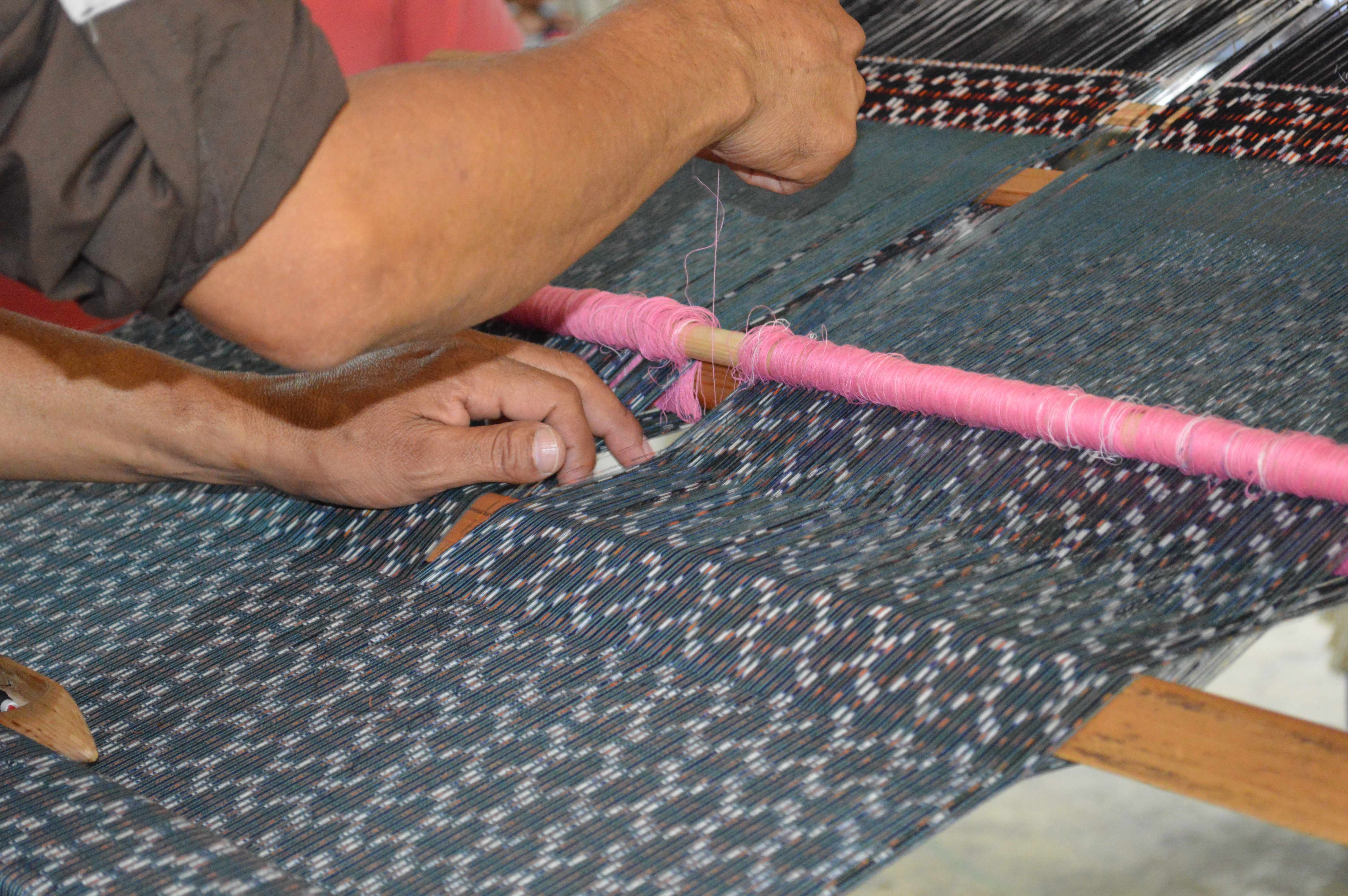 exhibition of a rebozo being made on a backstrap loom at the Feria de Rebozo in Tenancingo, Mexico State, Mexico